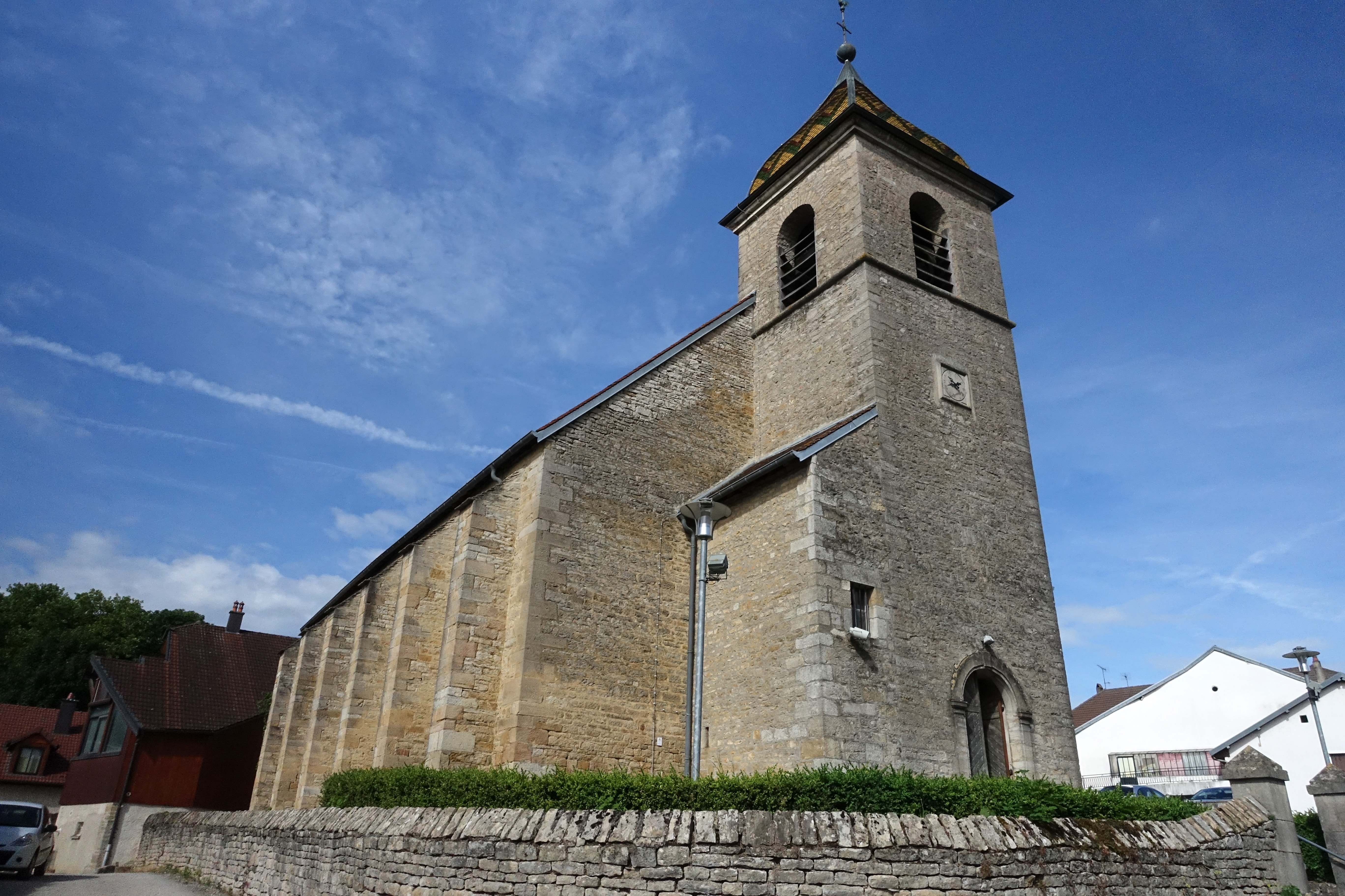 Saint-Martin church in Pirey, Doubs, France